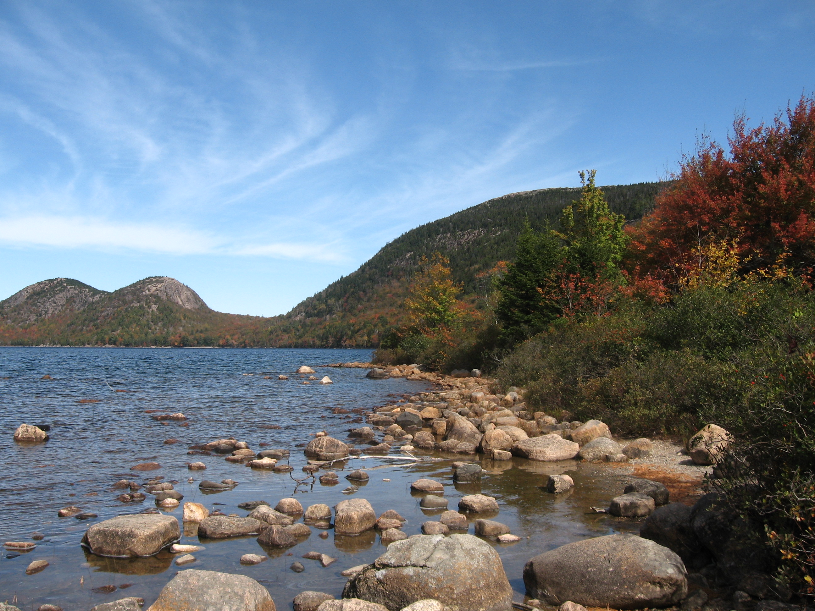 Jordan Pond, Acadia National Park, Maine